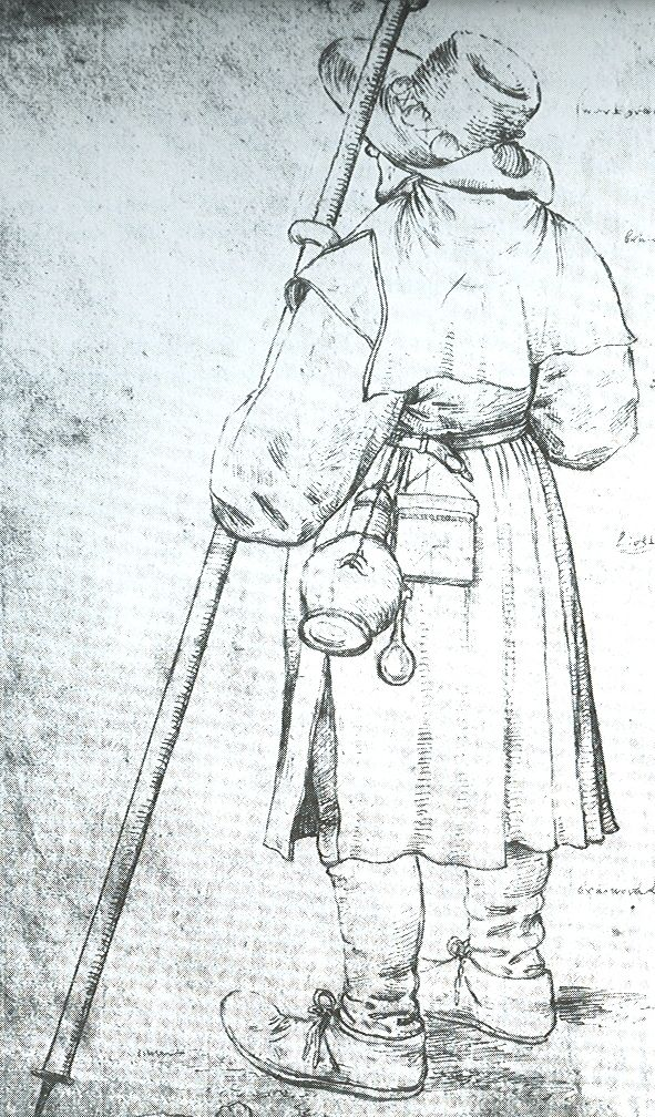 Pelgrim by Breughel Museum Boijmans Van Beuningen Native nameMuseum Boijmans Van BeuningenLocationMuseumpark 18, Rotterdam, NetherlandsCoordinates51° 54′ 51.19″ N, 4° 28′ 22.9″ E Established1841Web pageboijmans.nlAuthority control : Q679527 VIAF: 158031734 ISNI: 0000 0004 0460 0425 ULAN: 500308264 LCCN: n81056593 NLA: 35464893 WorldCat institution QS:P195,Q679527